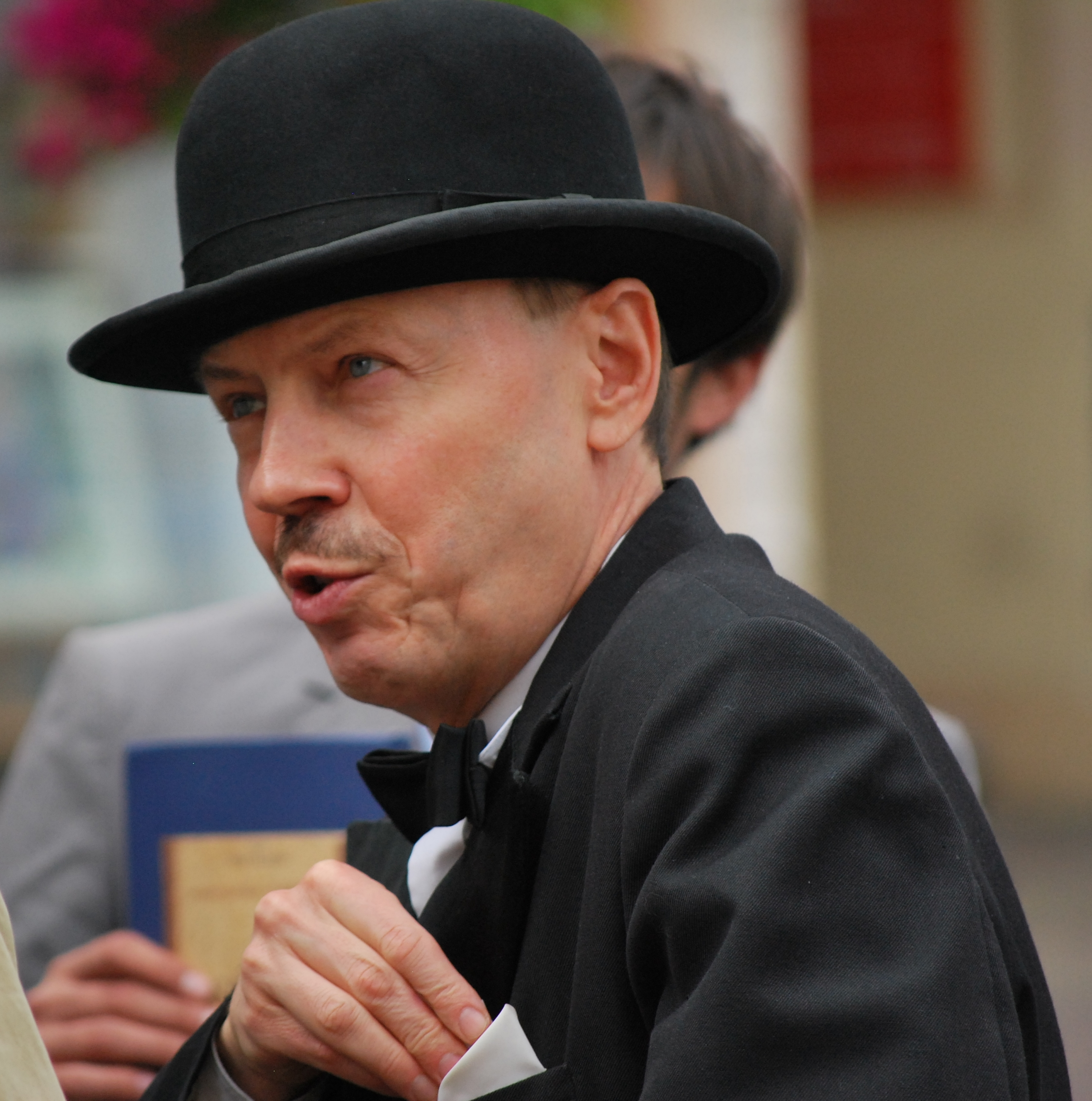 Marcel Szytenchelm, actor and organizer of cultural activities